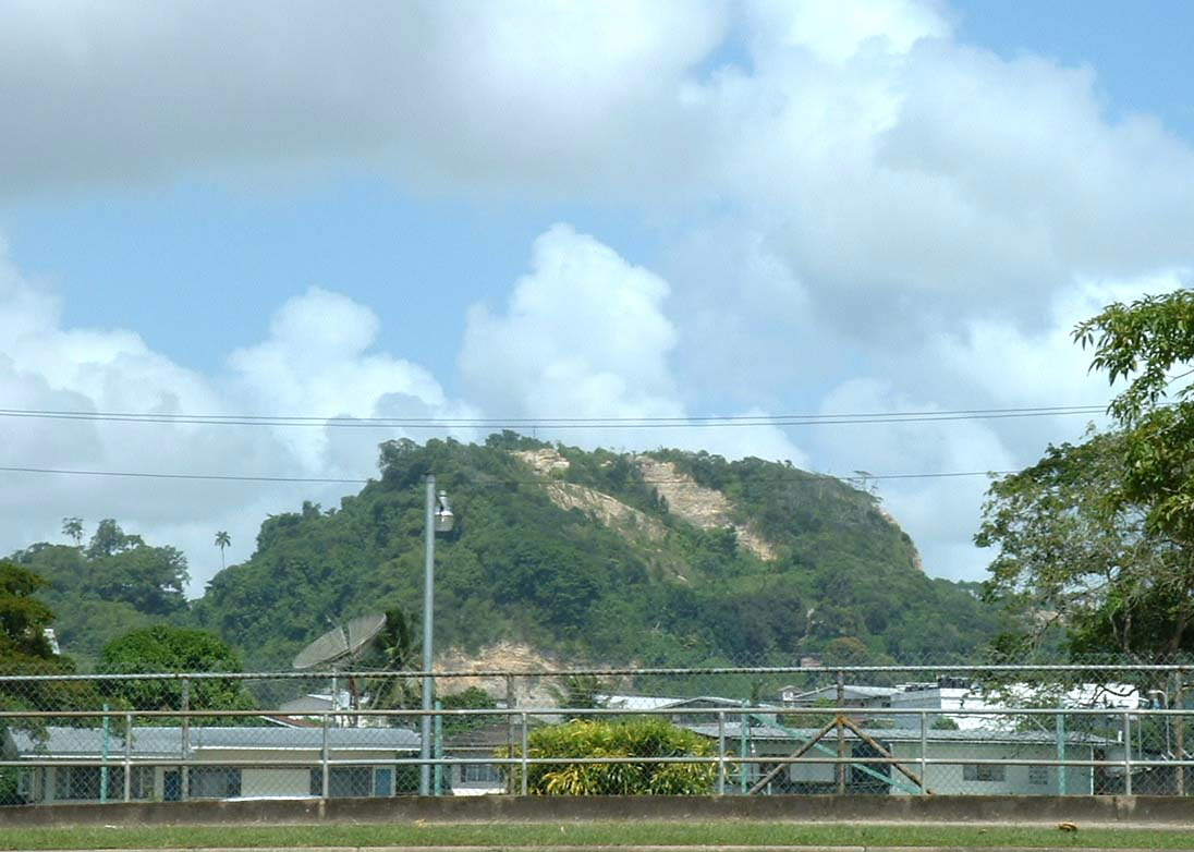 Kalamazad